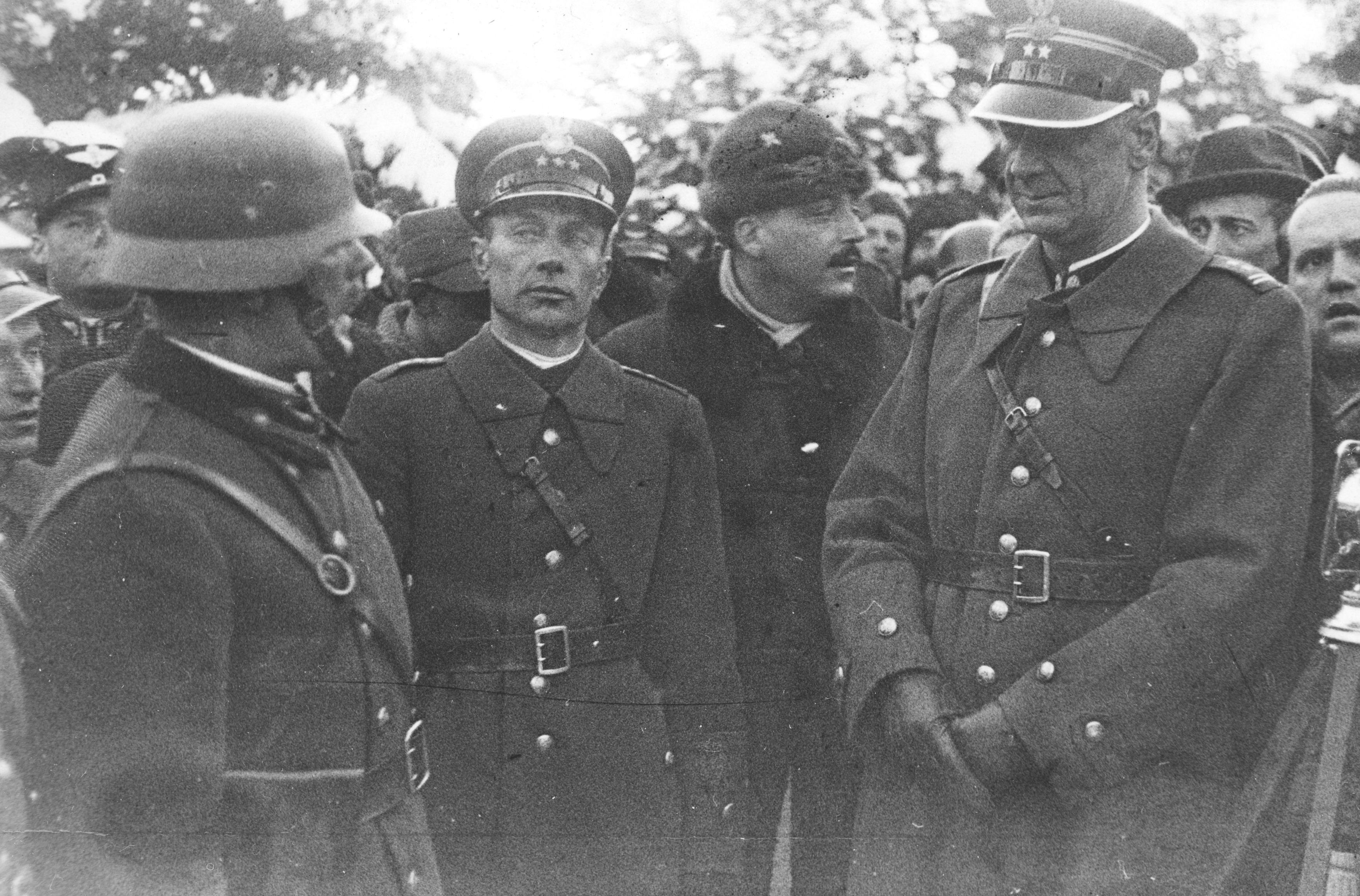 Uroczystość powitania węgierskich oddziałów wojskowych na granicy polsko-węgierskiej po zajęciu przez Węgry Rusi Zakarpackiej. Ppłk Ziętkiewicz - pierwszy z prawej